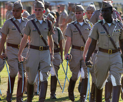 Officers of the Texas A&M University Corps of Cadets in "Class Bravos," a semi-dress uniform.